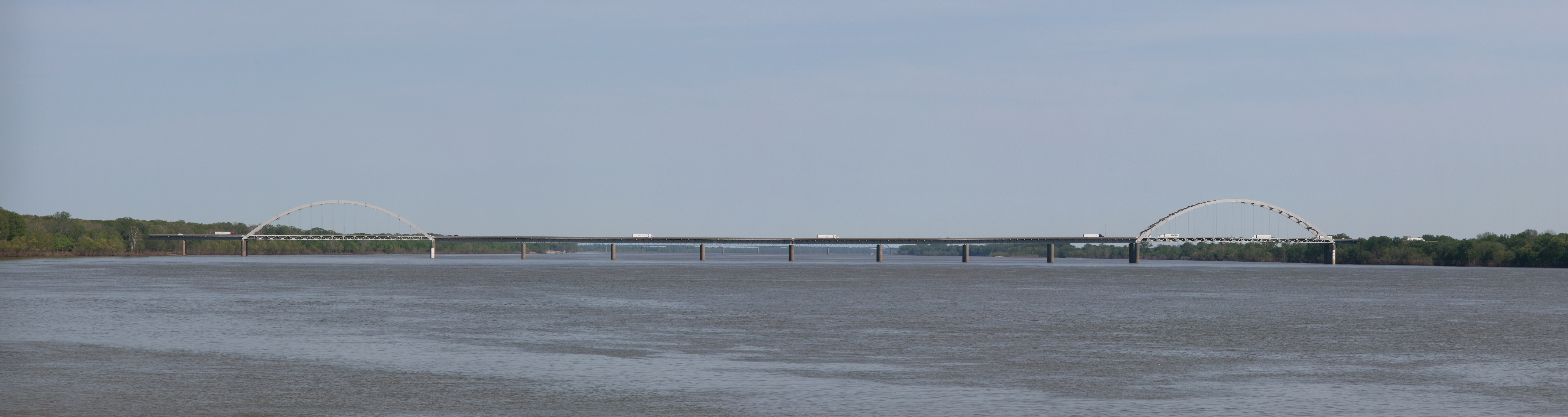 I24-bridge across the Ohio river and the Illinois-Kentucky state line. This image was created with Hugin.